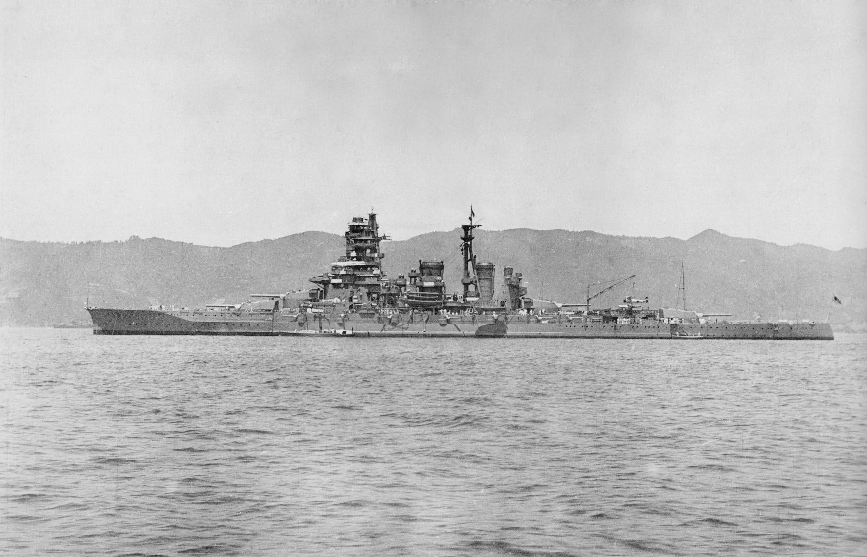 Imperial Japanese Navy battleship Kirishima at Tsukumowan, Japan.